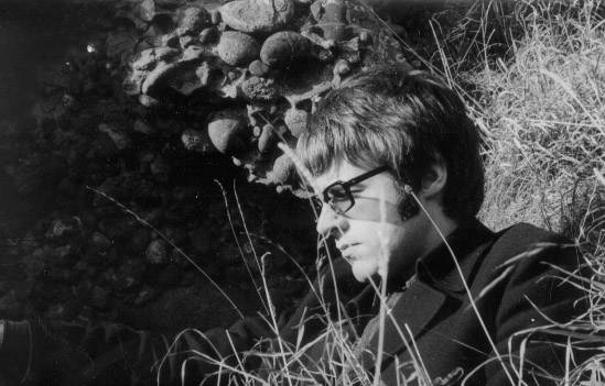 Photo of the mathematician J.T.Knight (1942-1970) taken by Andrew Ranicki at Dunnottar Castle, Scotland in September 1969